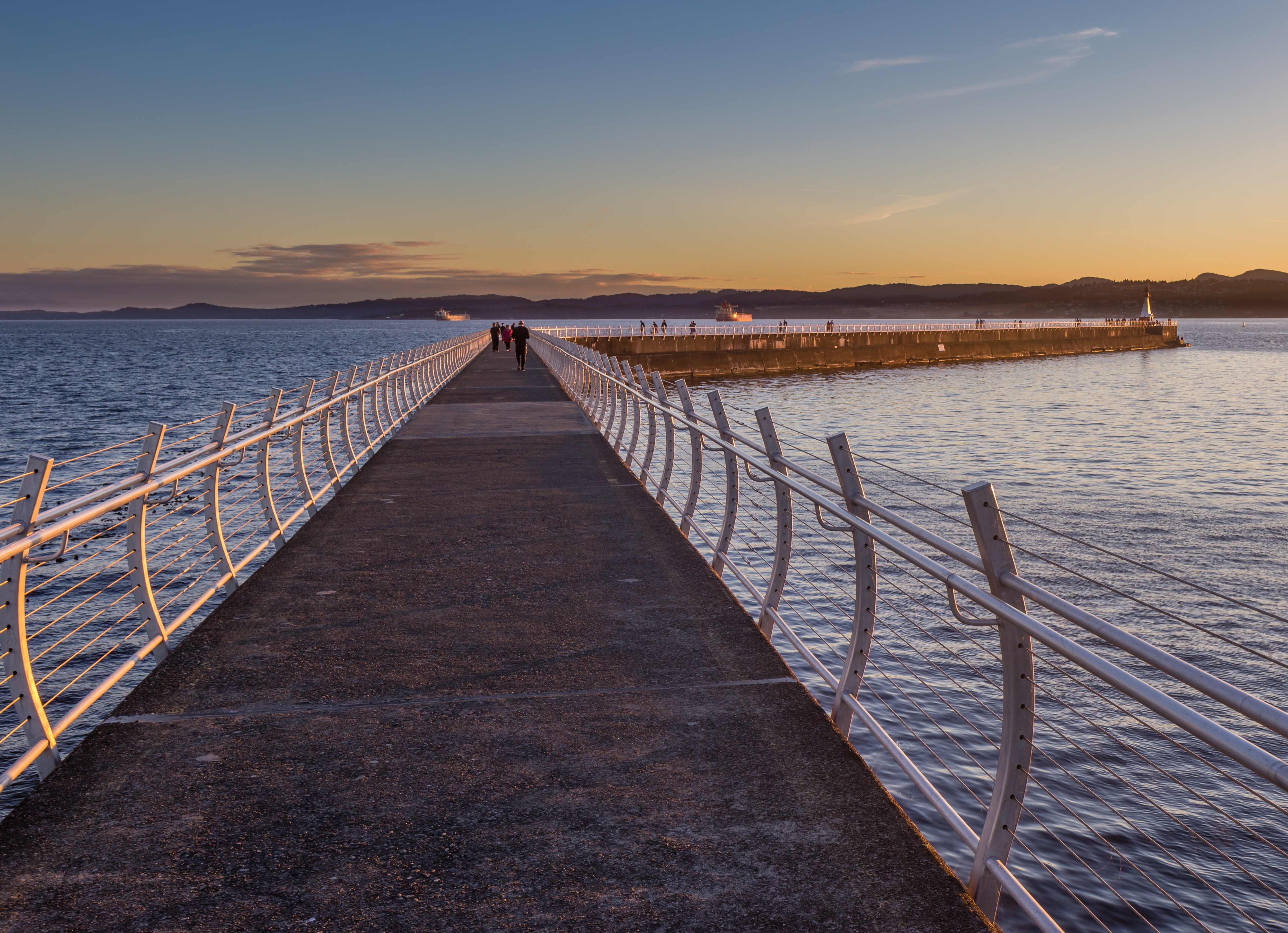 Ogden Point Breakwater during sunset, Victoria, British Columbia, Canada